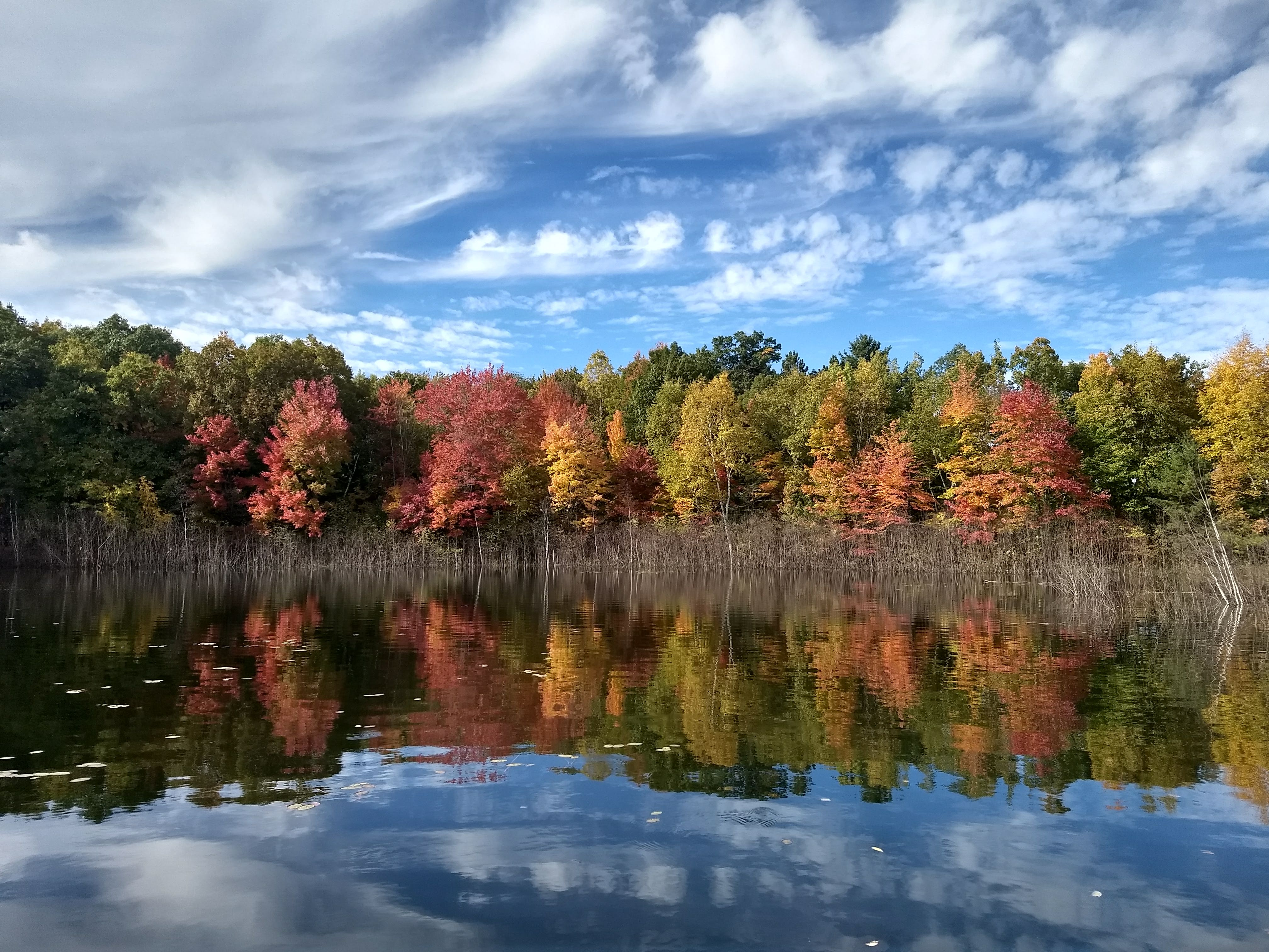 The East side of Silver Lake, Lampson, Wisconsin in October